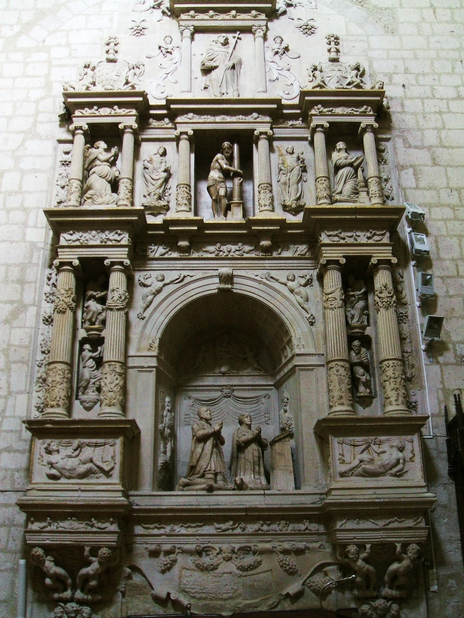 Sepulcro renacentista de los primeros Marqueses de Poza, en la Capilla Mayor de la iglesia del Convento de San Pablo de Palencia, España